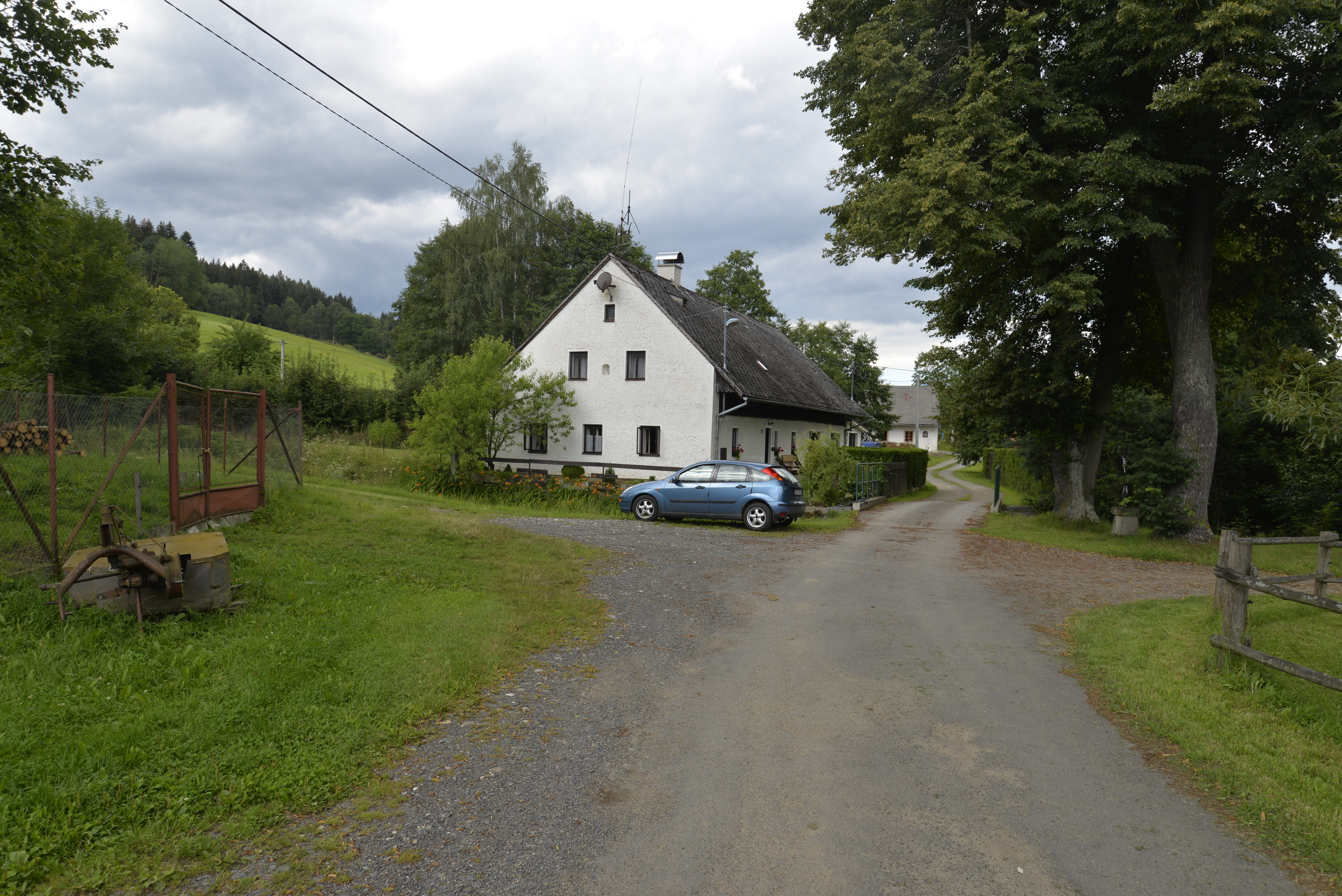 Světlá - small village, part of city Hartmanice in Klatovy District